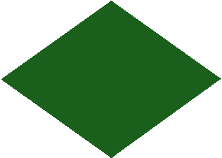 Formation Patch of Pacific Command, Canadian Army, WW2